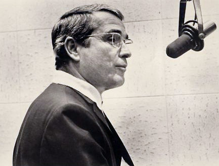 Promotional photo of Perry Como